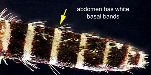 Aedes taeniorhynchus adult abdomen taken by Michele Cutwa courtesy of UFL-FMEL (University of Florida - Florida Medical Entomology Laboratory)